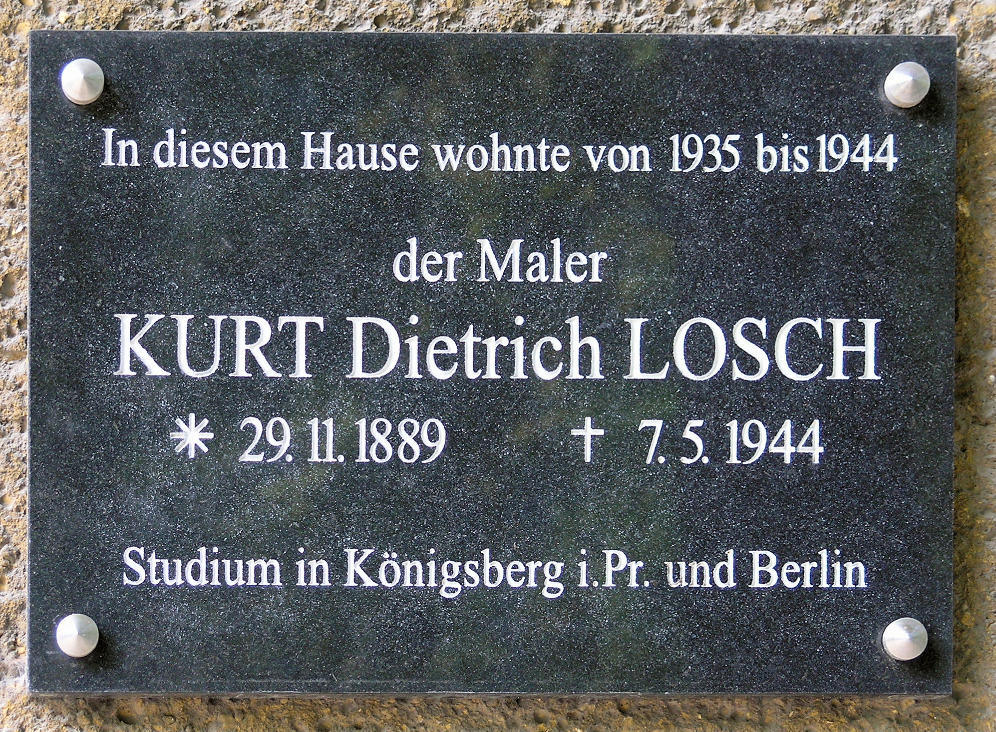 Memorial plaque, Kurt Dietrich Losch, Meraner Straße 12, Berlin-Schöneberg, Germany Koordinate:52°29′14″N 13°20′20″E / 52.48722°N 13.33889°E